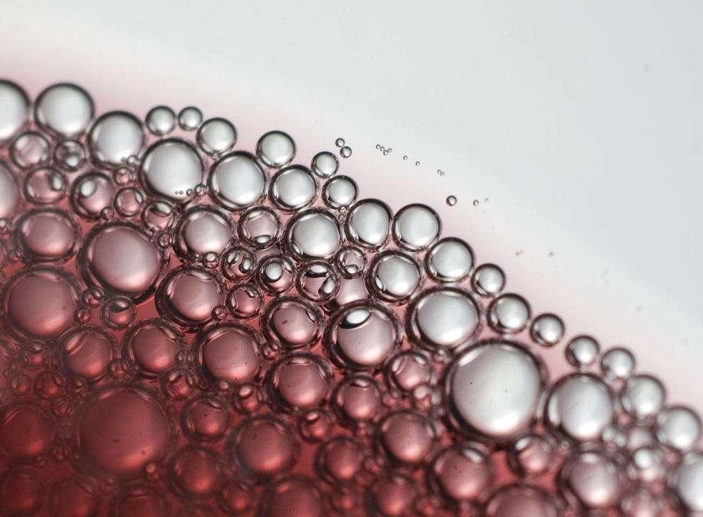 A crop of sparkling Lambrusco Grasparossa di Castelvetro